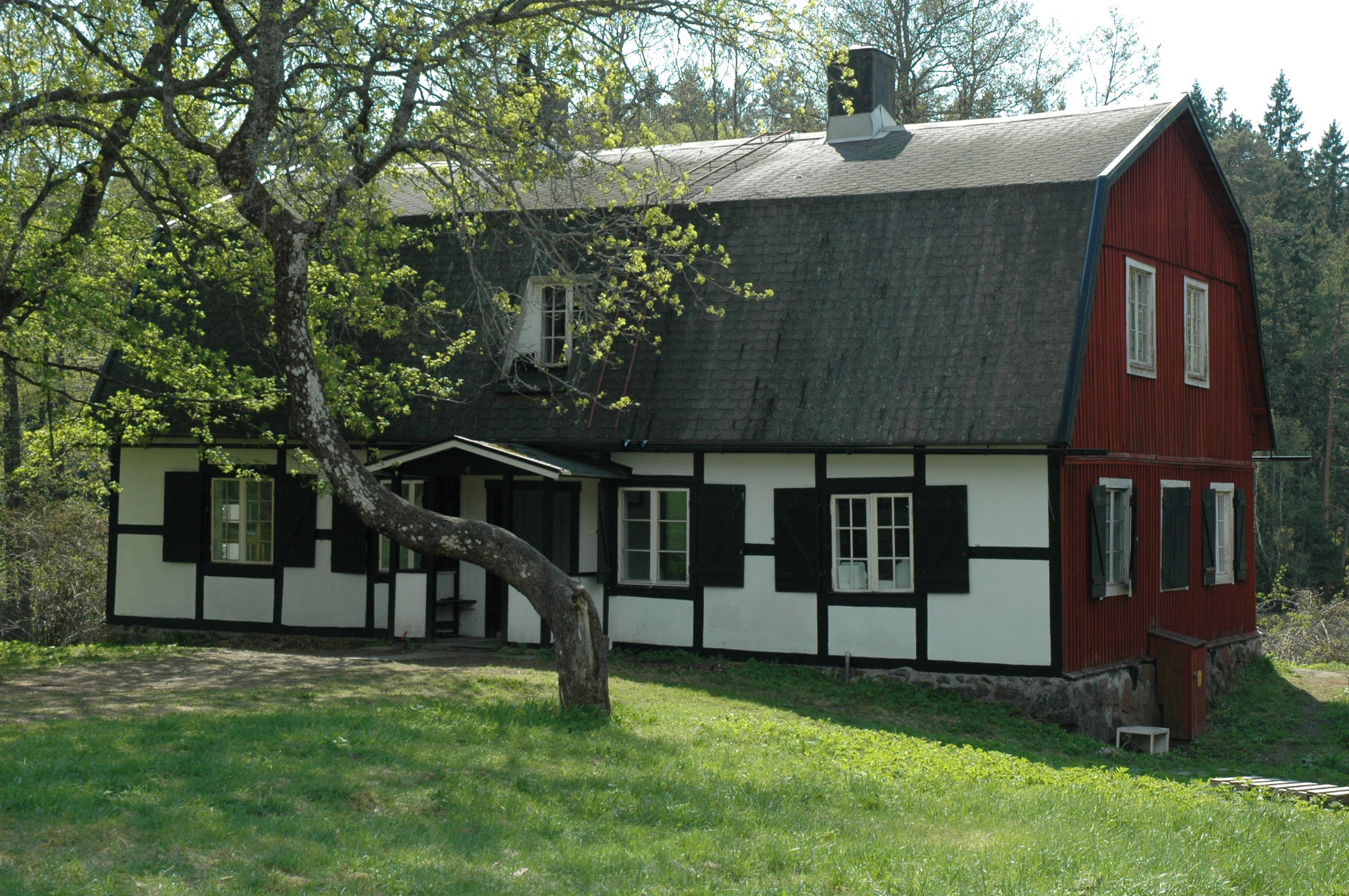 Historical building in Stensjödal, in Tyresta national park